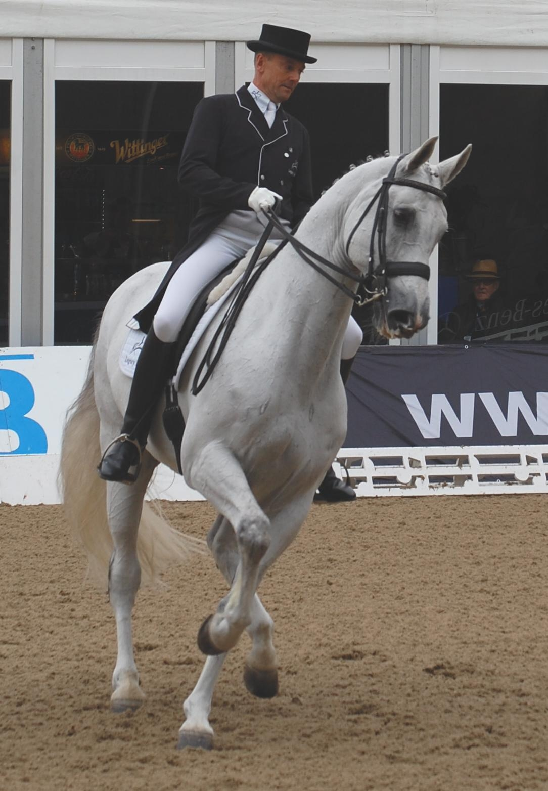 Lars Petersen and his horse Willano, 56th German dressage derby, a dressage competition with a horse change. Hamburg 2014.